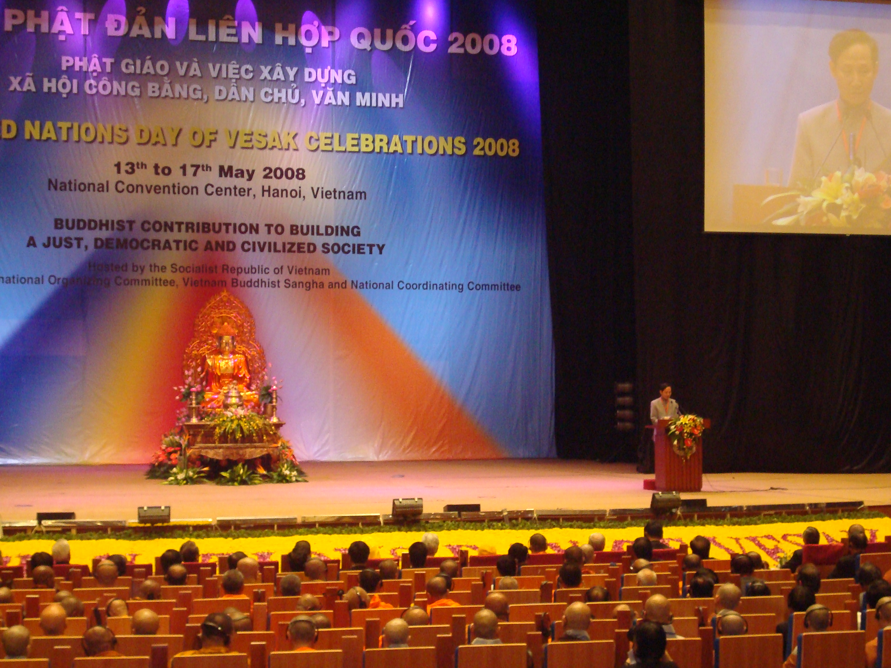 Lê Mạnh Thát at The Fifth United Nations Day of Vesak (13th to 17th, May, 2008, National Convention Center, Hanoi, Vietnam)